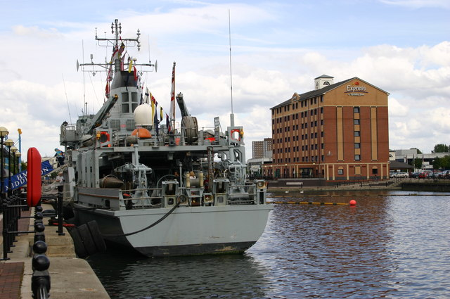 Holiday Inn Express Salford Quays To the right of the British Minesweeper H.M.S. Middleton visiting Salford Quays. The Holiday Inn. This is a very popular hotel for people who are visiting the area, including, the Lowry Theatre, Lowry Shopping Centre, the Trafford Centre, Manchester United Football Ground and all other attractions in and around the city of Manchester.